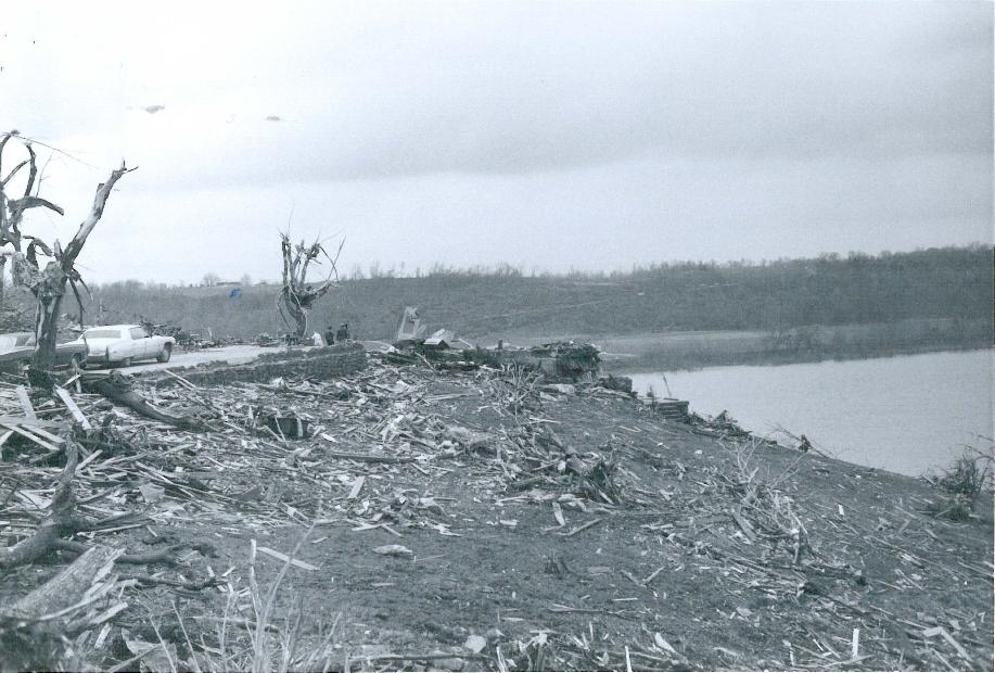 Large house swept cleanly away in Brandenburg.